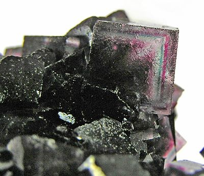 Fluorite Locality: Okorusu Mine (Okarusu Mine), Otjiwarongo District, Otjozondjupa Region, Namibia (Locality at ) Size: 12.9 x 10.4 x 4.9 cm. This large plate of fluorite is from a new find at the Okarusu Mine in Namibia! The crystals from this find came in a variety of colors. This specimen has crystals of deep violet color. They are very sharp and lustrous!